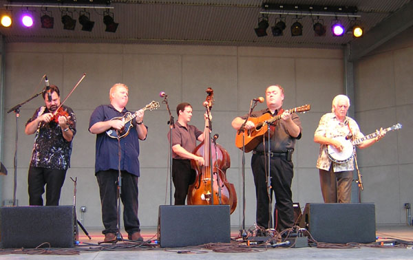 Picture of J. D. Crowe and the New South performing at South Park in Pittsburgh, Pennsylvania, on August 8, 2008.